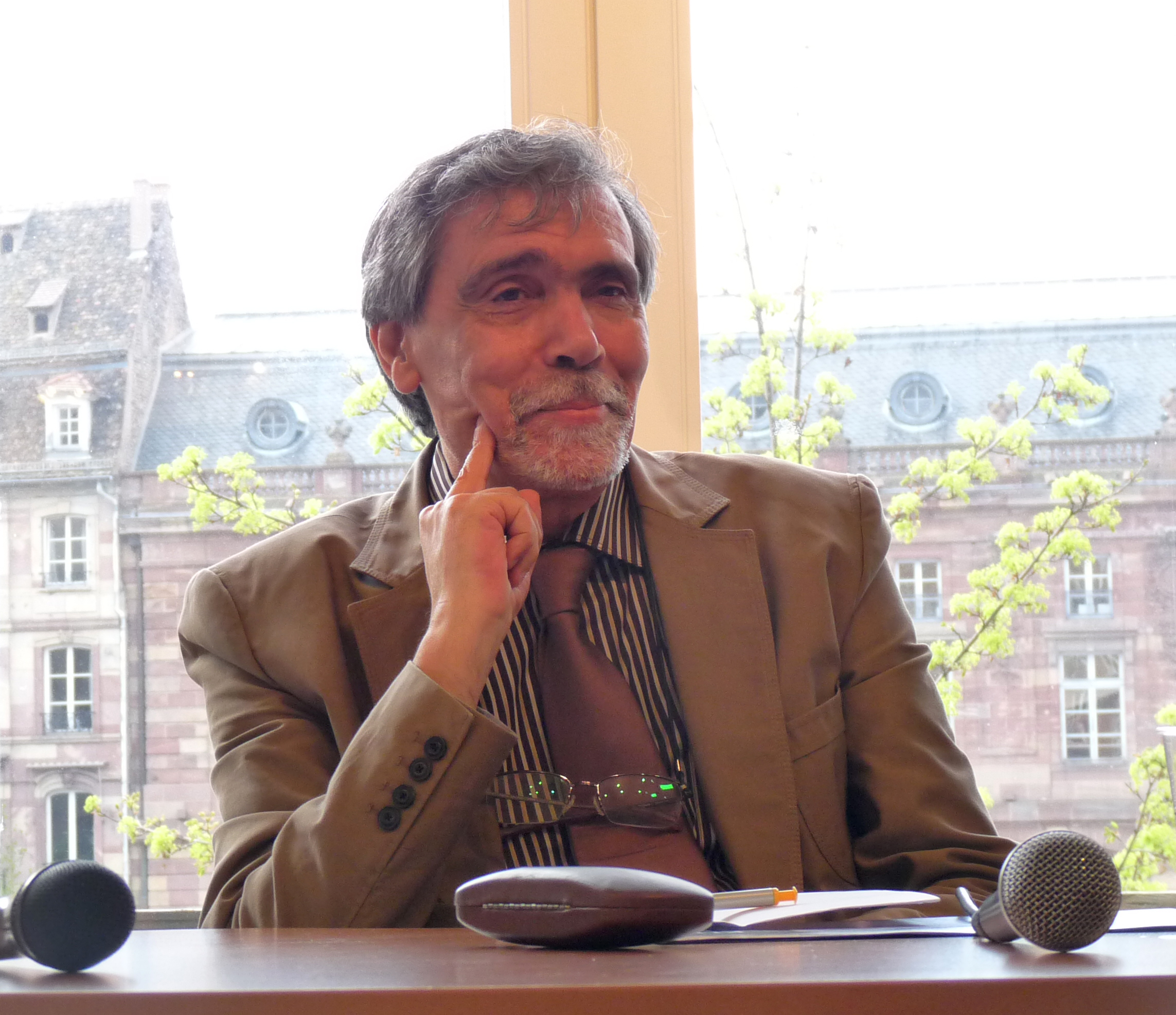 Moroccan writer and academic Abdelfattah Kilito in Strasbourg